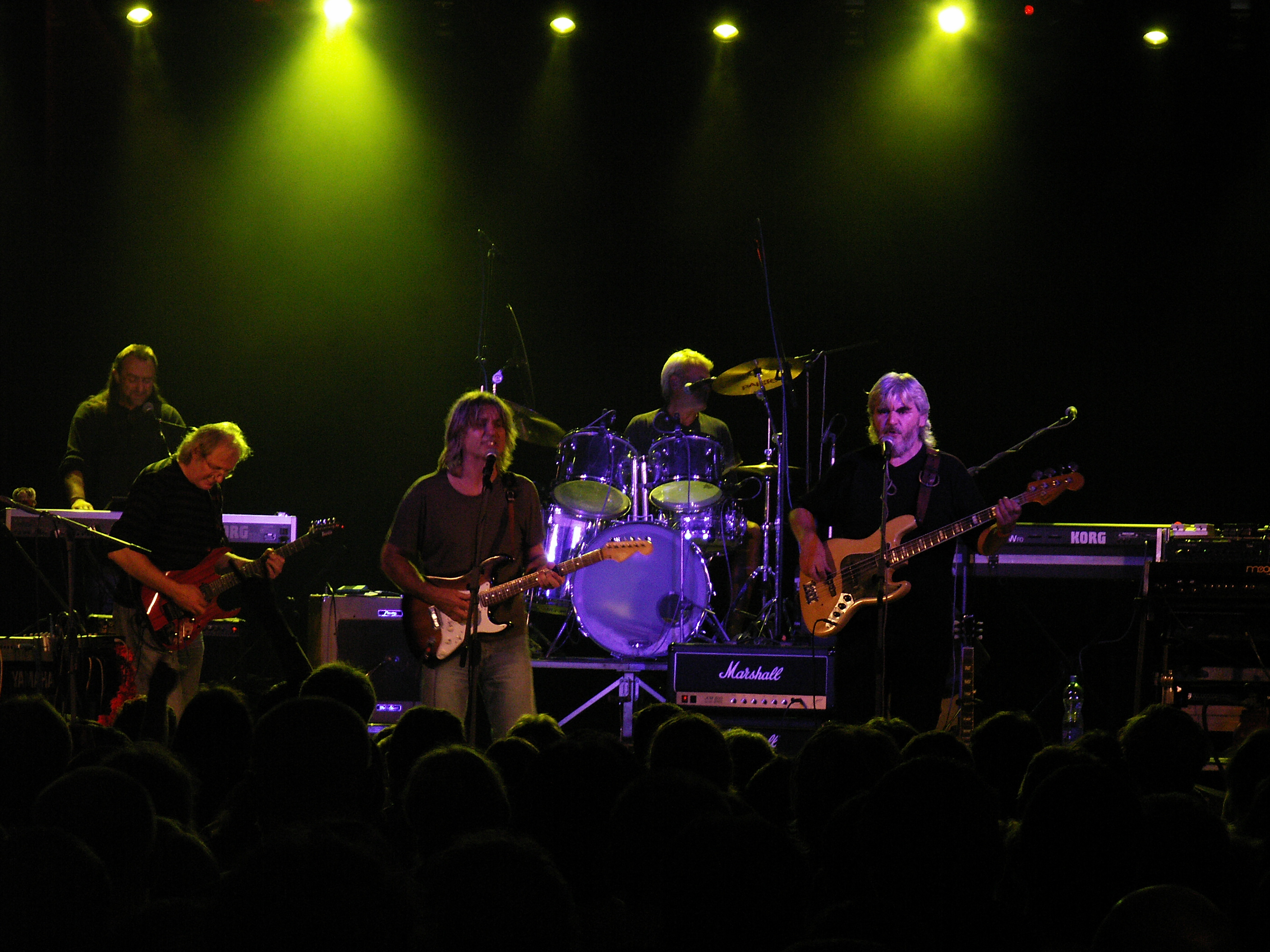 Progres 2